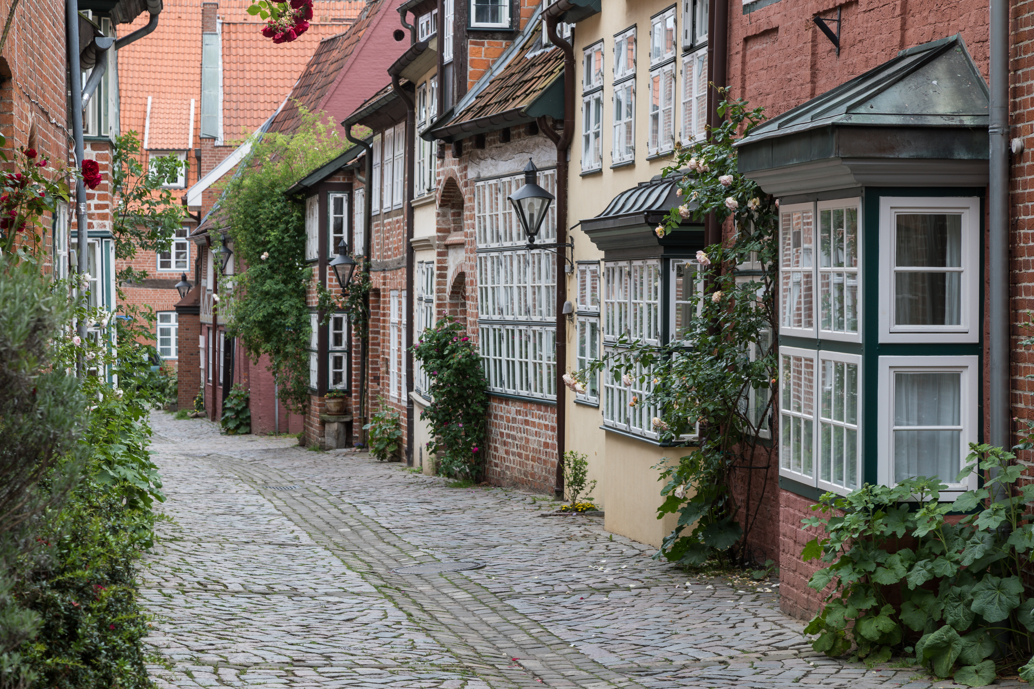 Street "Auf dem Meere" in Lüneburg, Lower Saxony